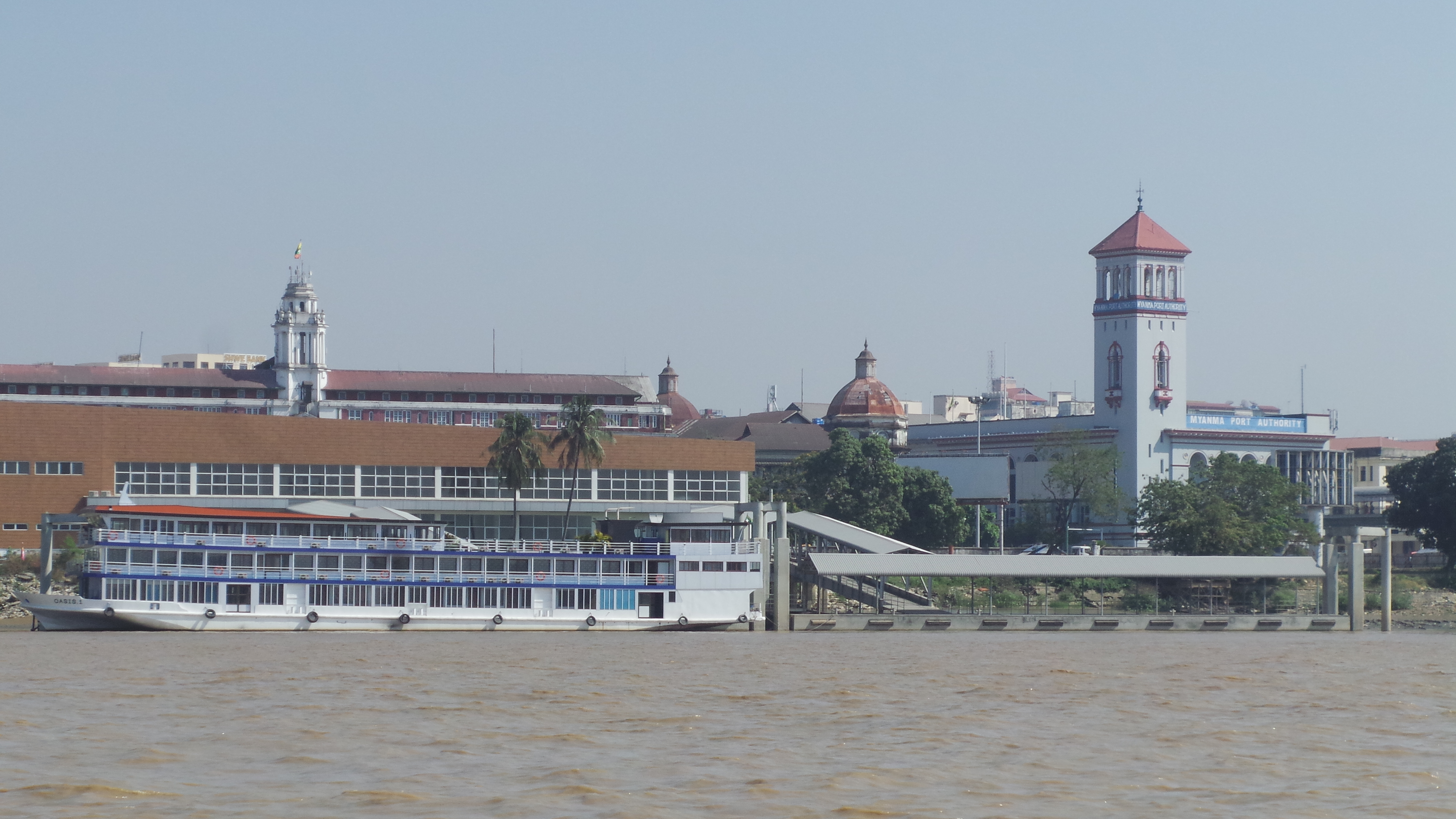 Myanmar Port Authority Building and Pansodan Jetty view from Yangon river မြန်မာဘာသာ: ရန်ကုန်မြစ်အတွင်းမှ မြင်ရသော မြန်မာ့ဆိပ်ကမ်းအာဏာပိုင်ရုံးနှင့် ပန်းဆိုးတန်းကူးတို့ဆိပ်